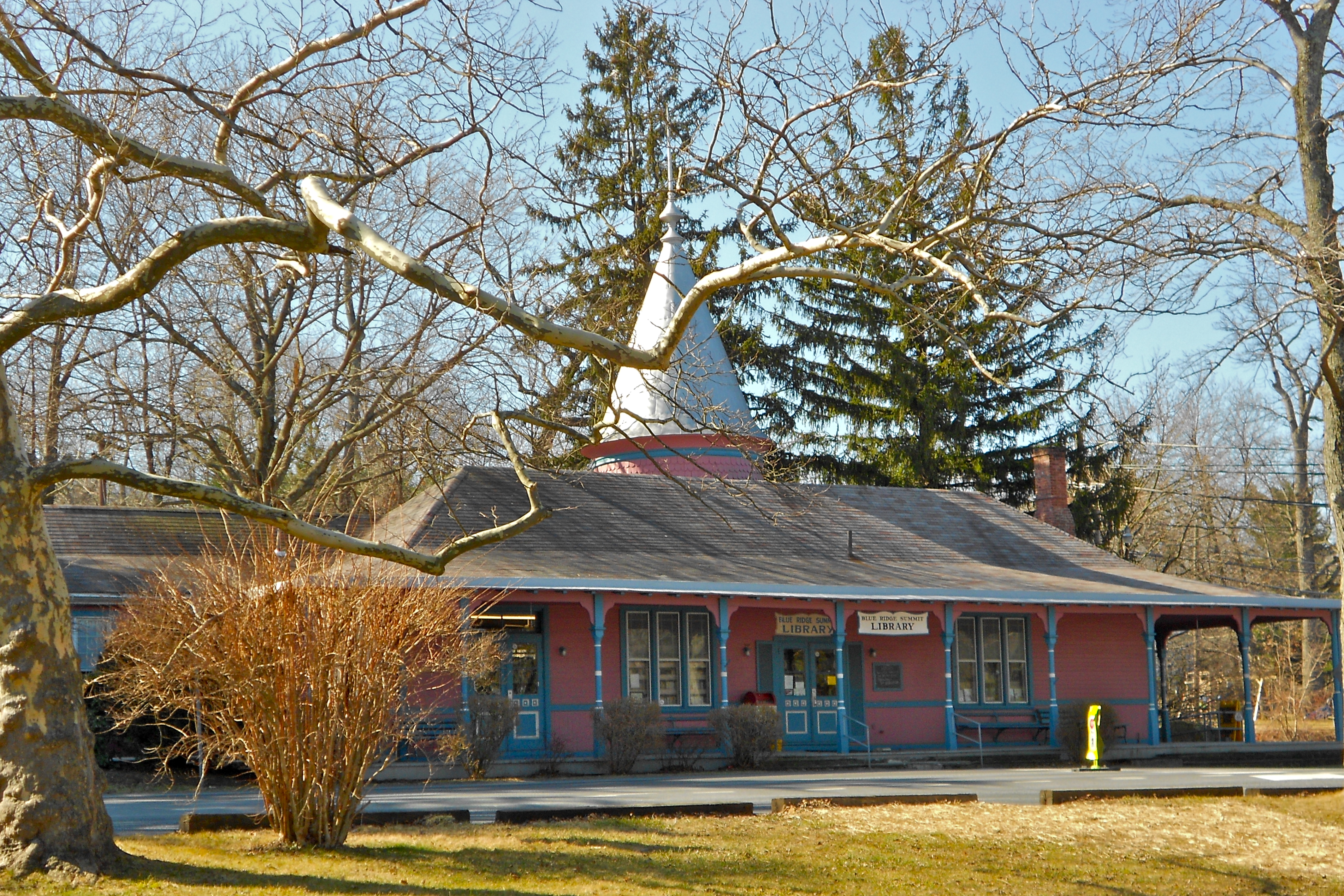 Library in Blue Ridge Summit, Pennsylvania. Part of the Franklin County Public Library. Looks like it is built as a train station, but the building turns its back on the single track (in a narrow cut) - there is no platform on that side.